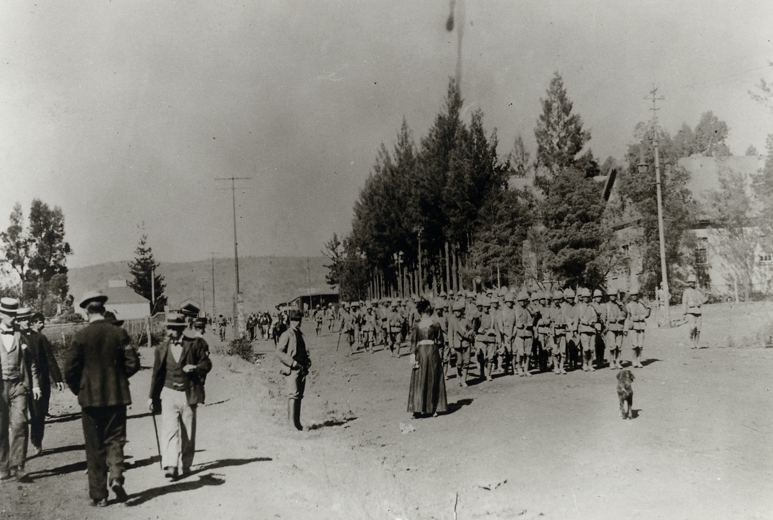 This photograph shows British troops marching on Market Street, later called Paul Kruger Street, in Pretoria, South Africa, in 1877. In 1877-78, the British Army engaged in a series of punitive expeditions against the Basuto, Zulu, and Galeka peoples that resulted in the annexation of the Transkei to the Cape Colony. The photograph is from the Van der Waal Collection at the Department of Library Services at the University of Pretoria, South Africa. The Van der Waal Collection forms part of an archive of South African architecture assembled by architectural historian Dr. Gerhard-Mark van der Waal. Market Street; Paul Kruger Street; Soldiers; Streets